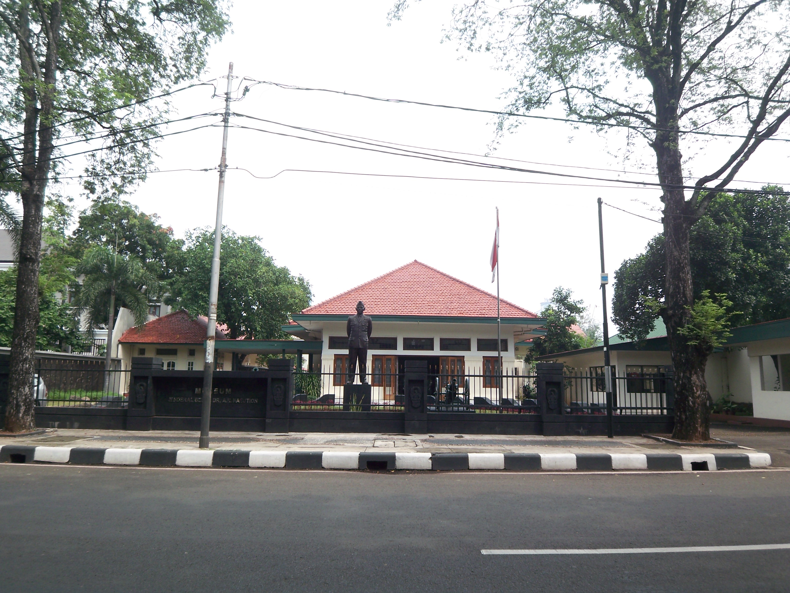 This is the museum of Jendral Abdul Haris Nasution located in Jalan Teuku Umar, Jakarta Pusat, DKI Jaya, Indonesia